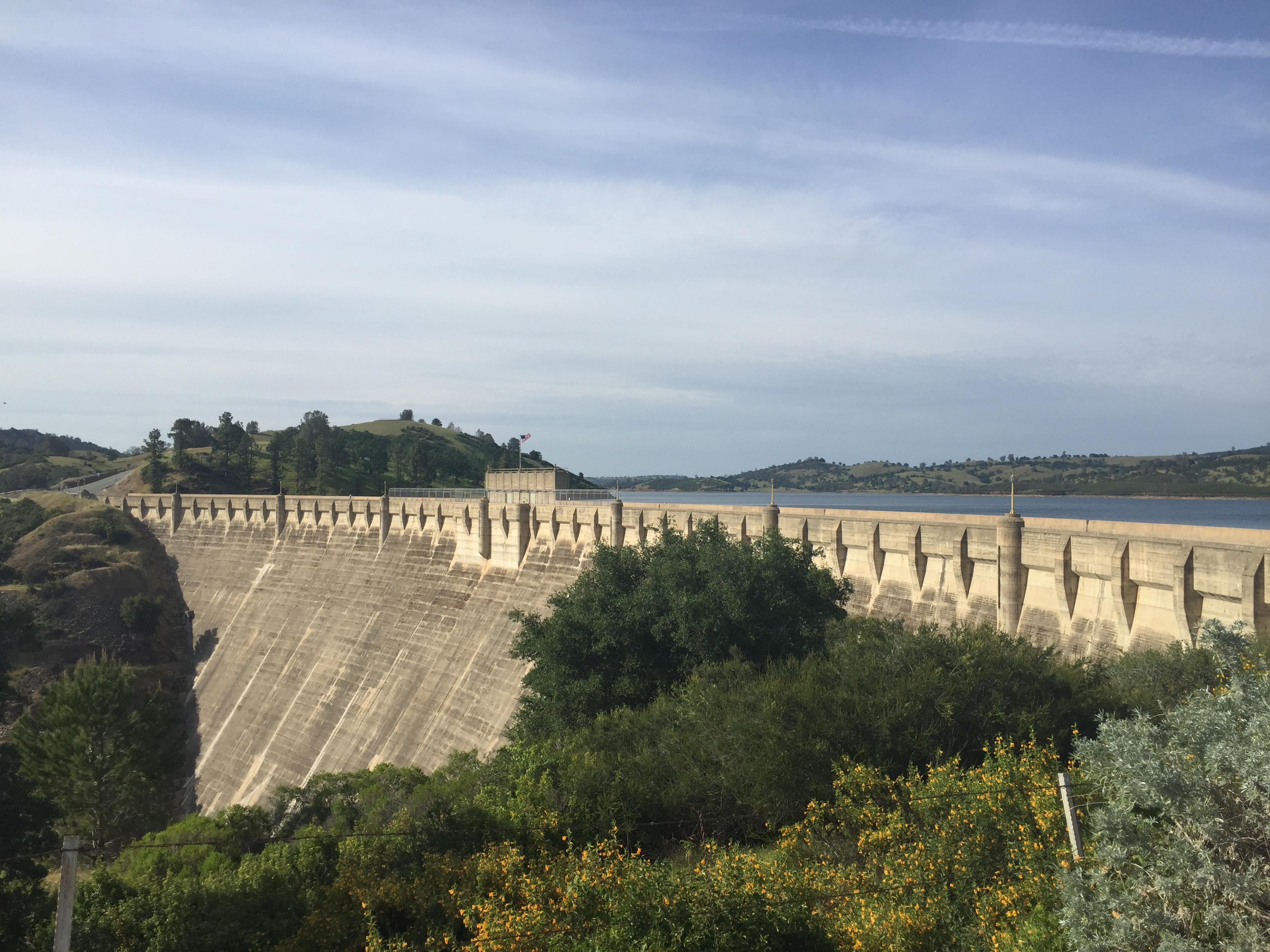 Image of the Pardee Dam from downstream.